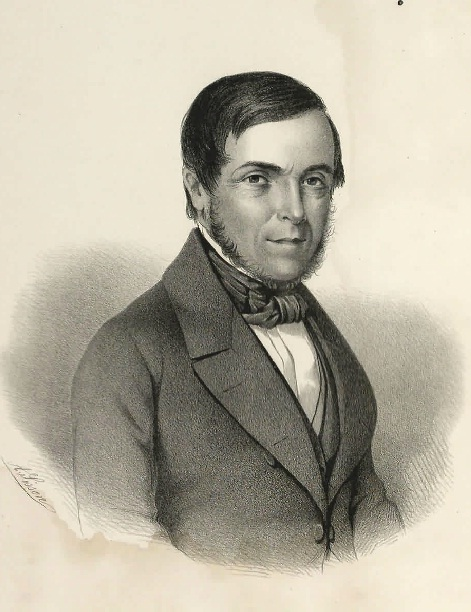 Honório Hermeto Carneiro Leão, later the Marquis of Paraná.